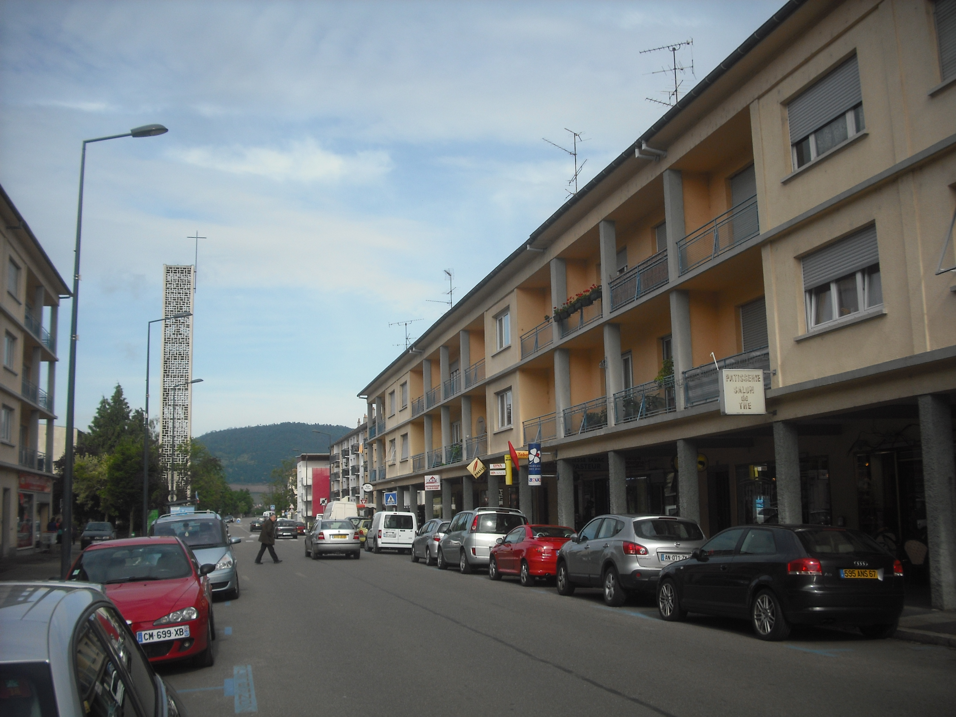 Quartier du Heyden, Sélestat, France.